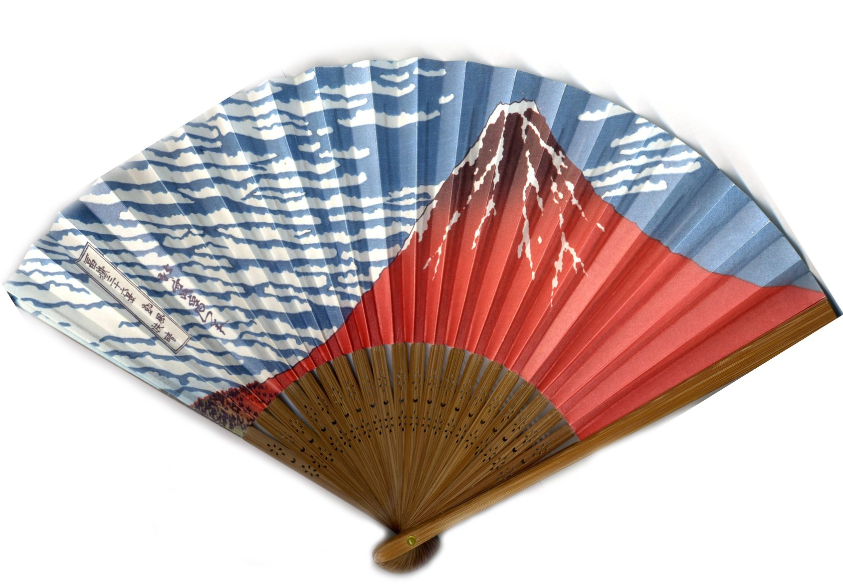 fan (implement)